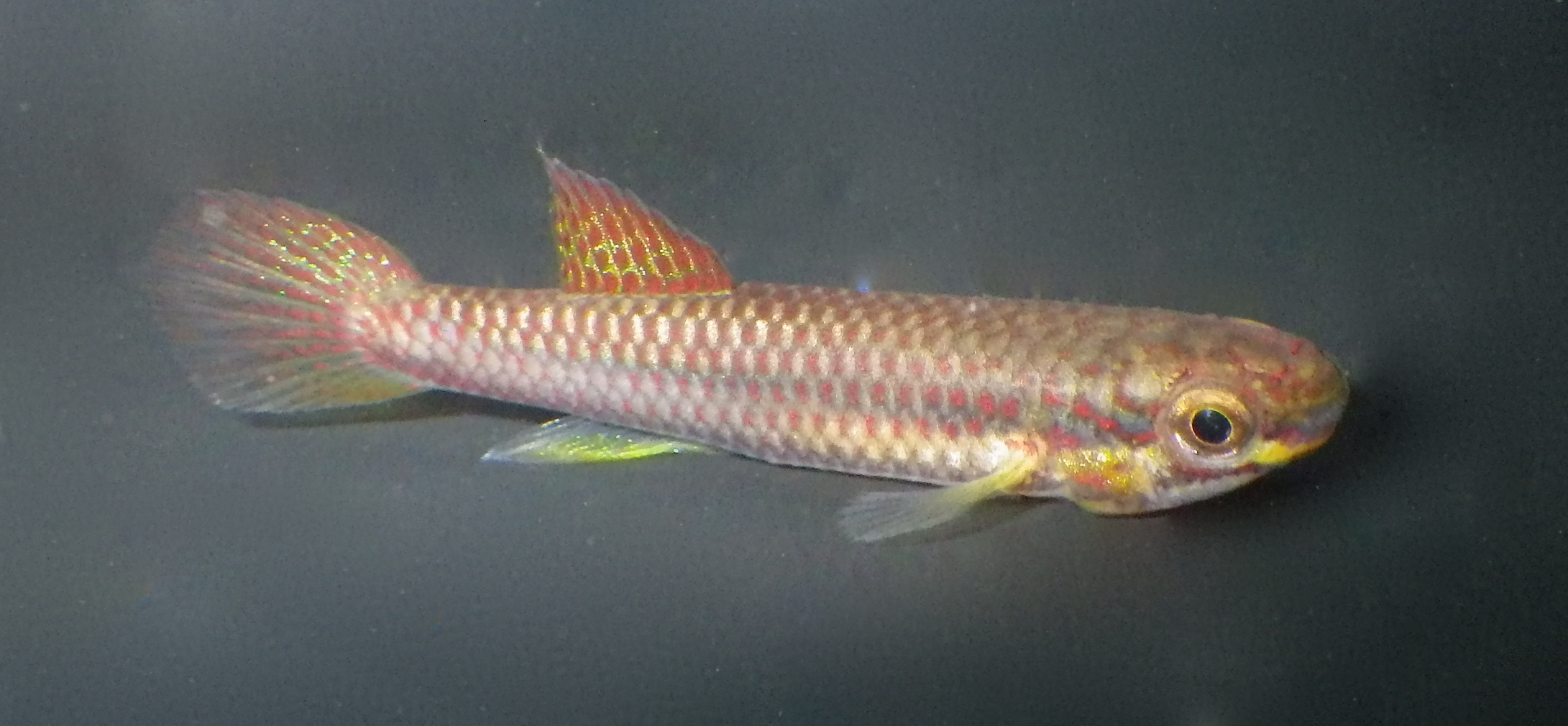 Female Aphyosemion splendopleure variety 'Tiko green', tank raised